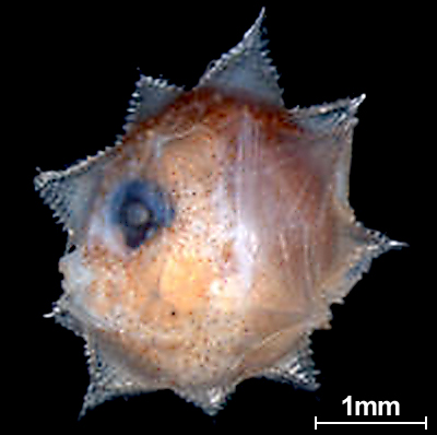 A 2.7mm-long larva of the ocean sunfish, Mola mola, from the Ichthyology Collection of the National Science Museum, Tokyo